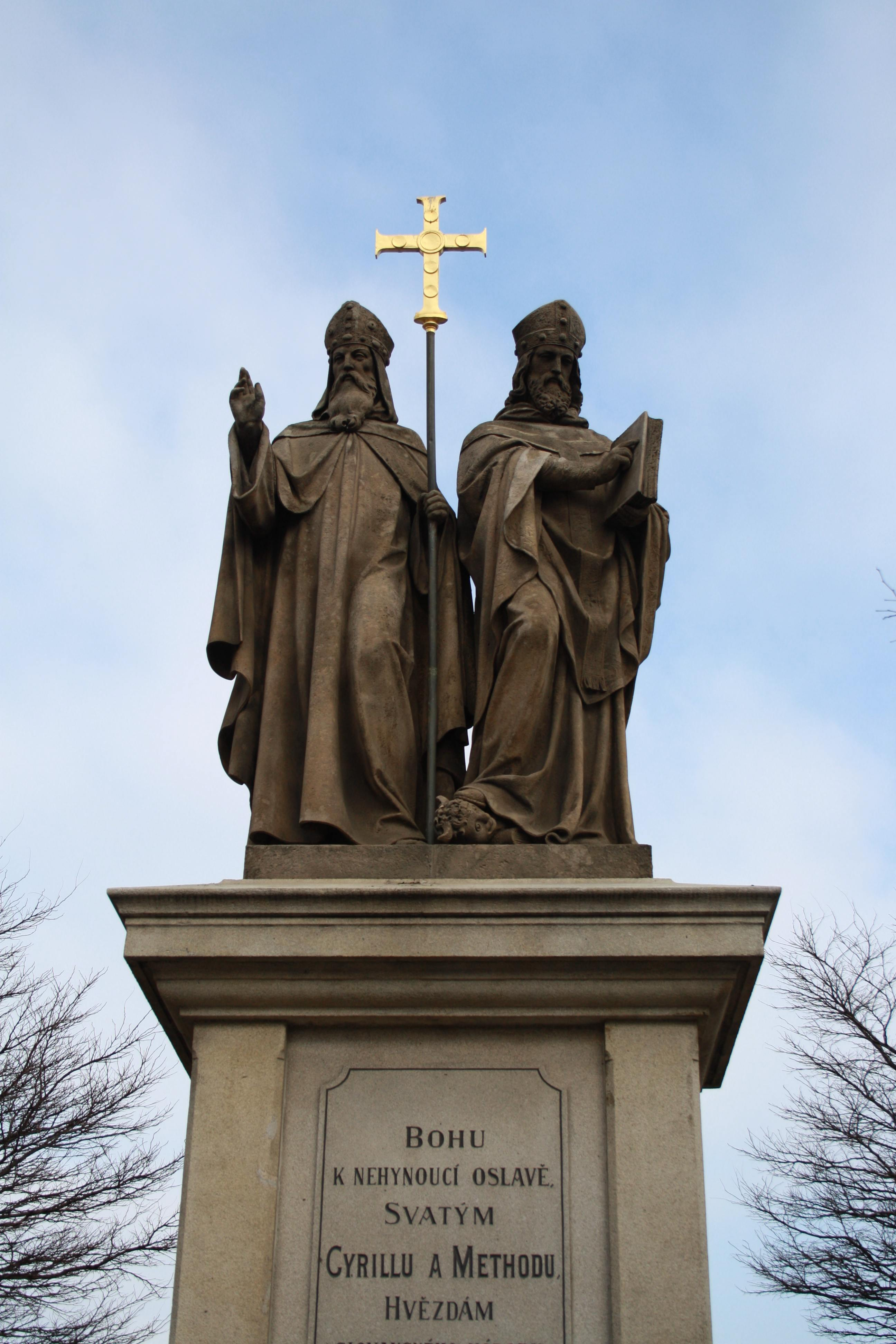 Detail of Cyril and Methodius statue in Třebíč, Karlovo náměstí.